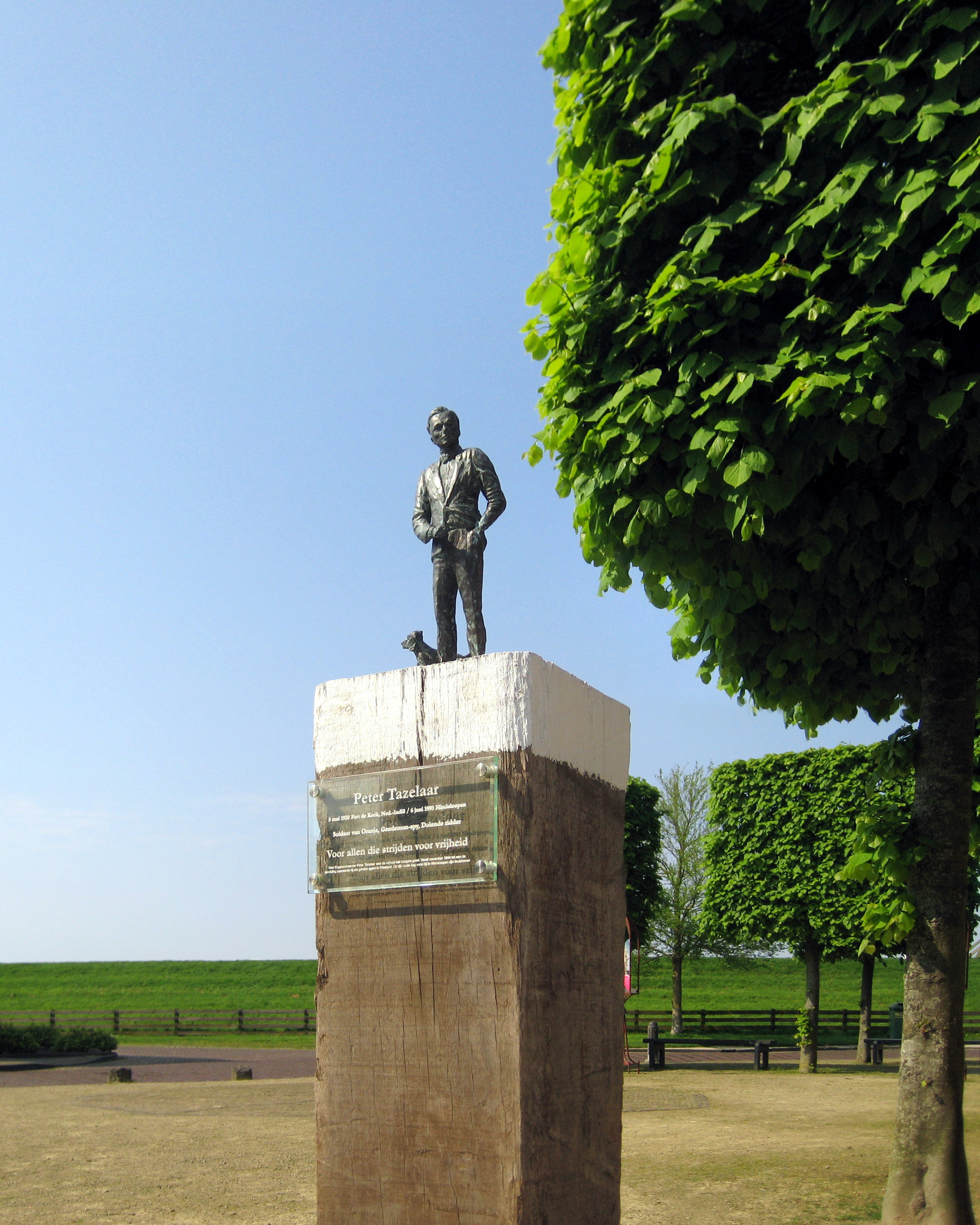 Memorial for the Dutch resistance fighter Peter Tazelaar (1920-1993) in Hindeloopen, a city in the Dutch province of Fryslân.